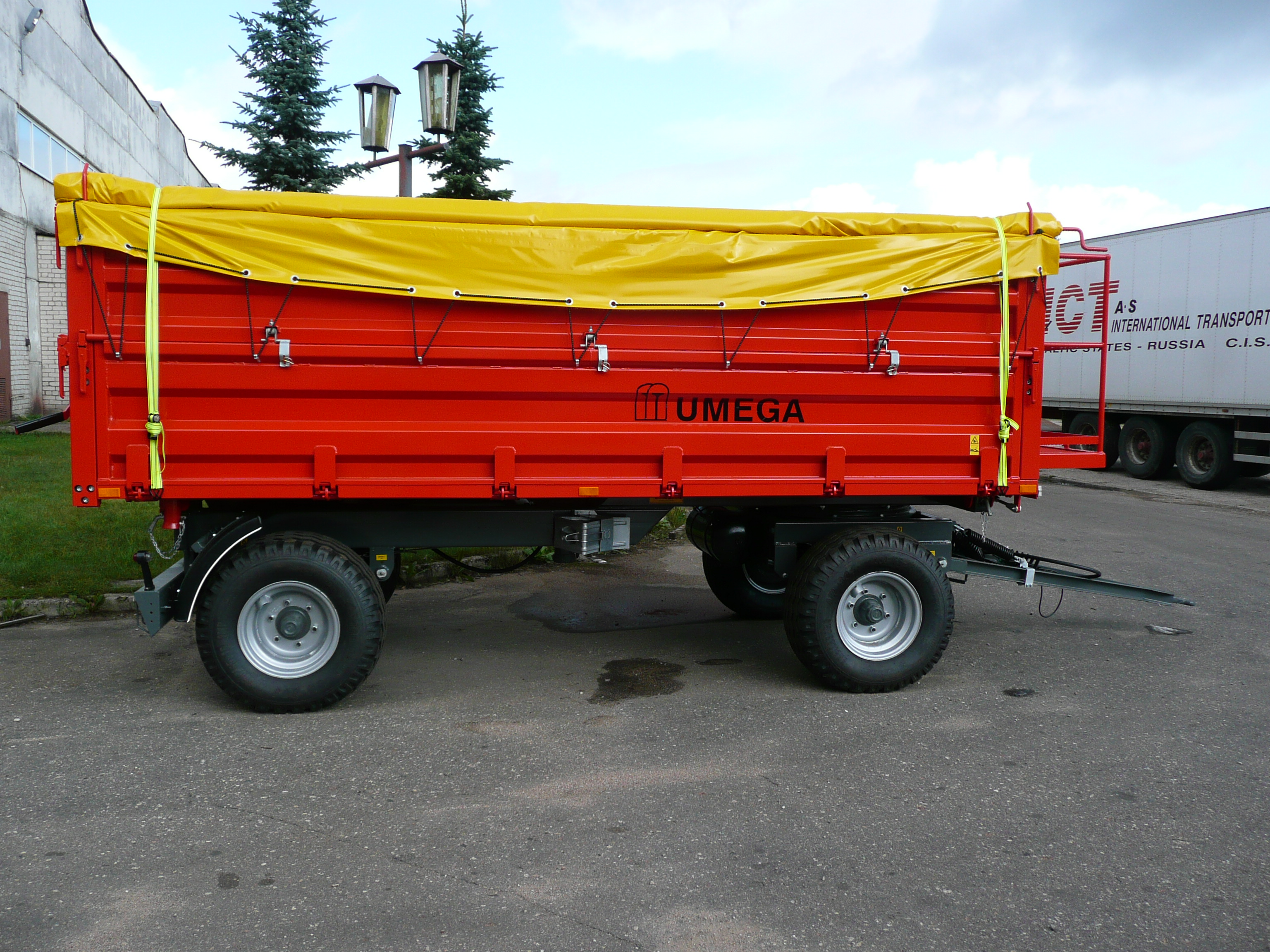 Umega trailer SPP 8